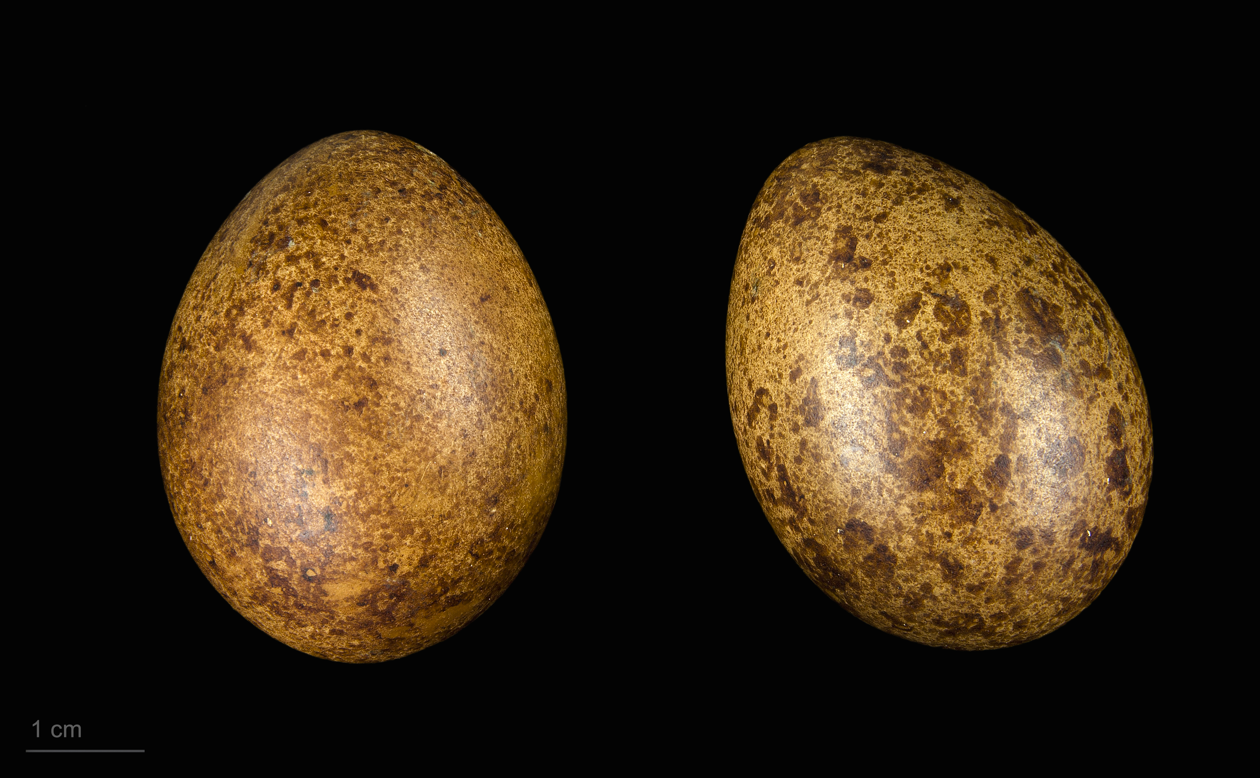 Eggs of Elanus caeruleus hypoleucus Two specimens of the same spawn ; collection of Jacques Perrin de Brichambaut.